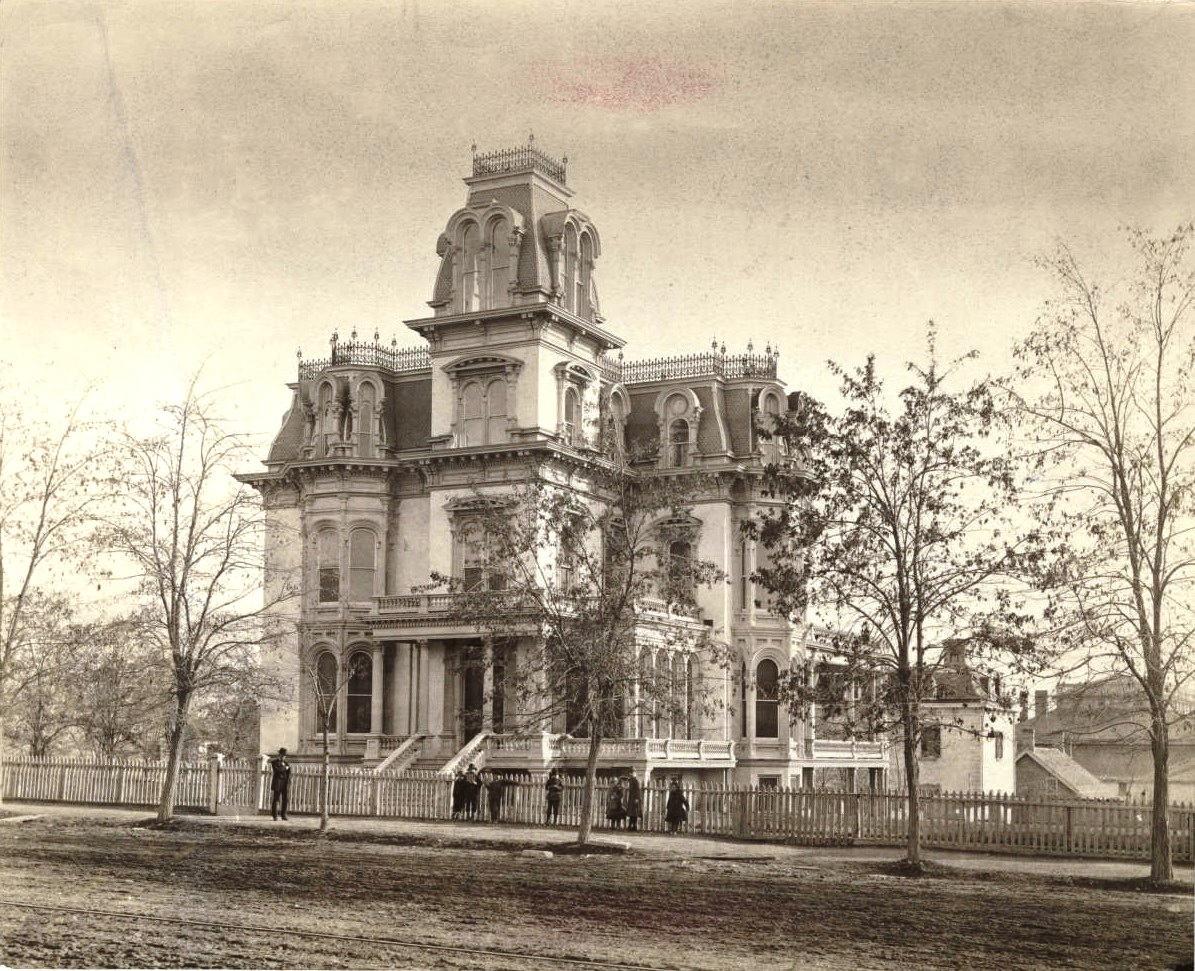 Photo of the Gardo House, the official residence of the president of The Church of Jesus Christ of Latter-day Saints (LDS Church) during the tenures of John Taylor and Wilford Woodruff.